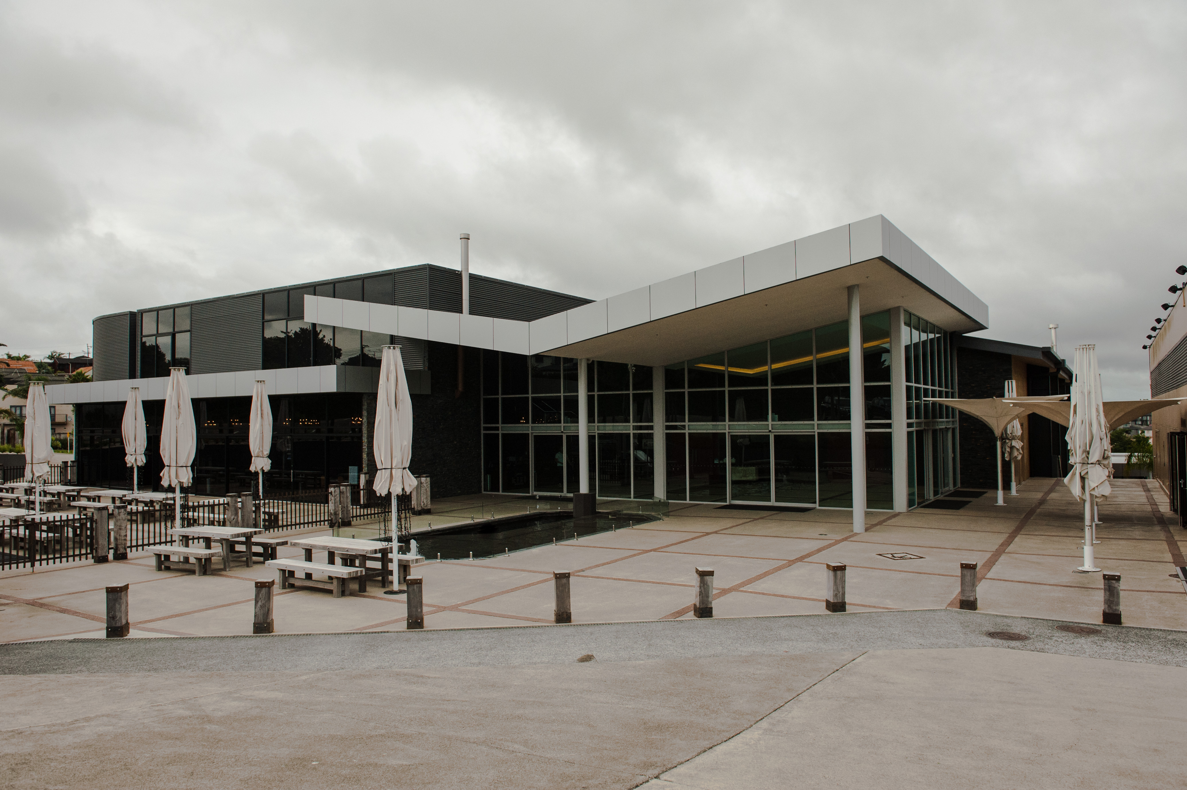 City Impact Church North Shore Building, Auckland, New Zealand